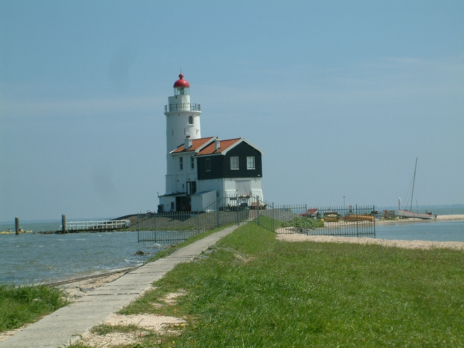 Marken lighthouse